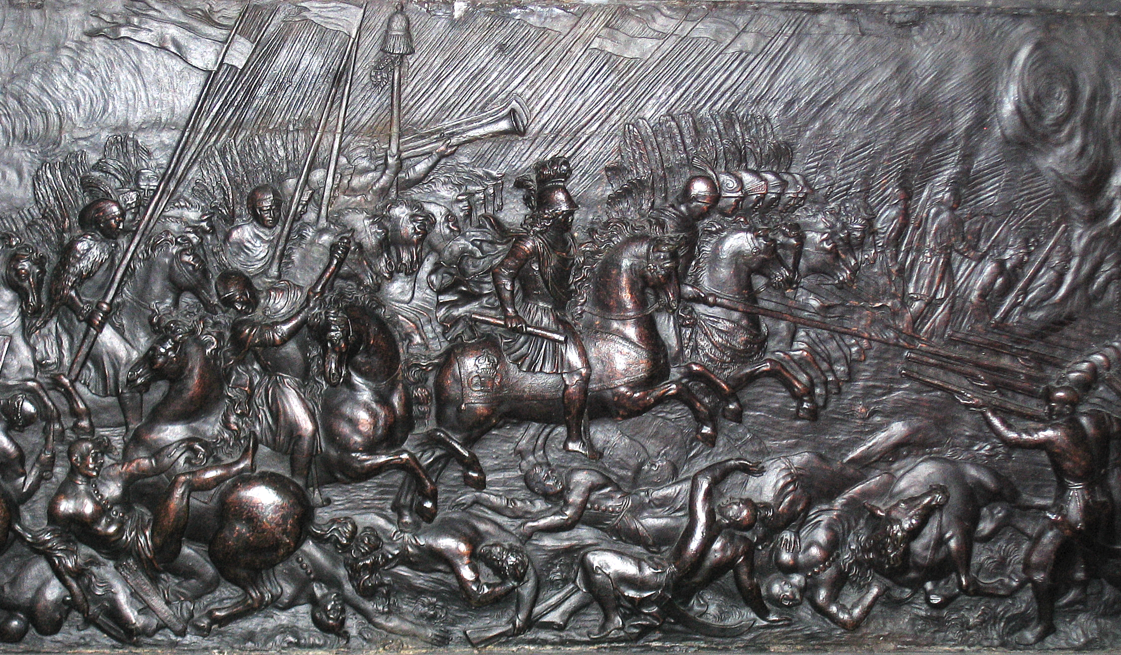 Relief "John II Casimir Vasa at Battle of Beresteczko" in 1651. This relief is on the lower part of the tomb containing the heart of John II Casimir Vasa at Abbey of Saint-Germain-des-Prés in Paris. Artist: the French Benedictine monk Jean Thibaut.)